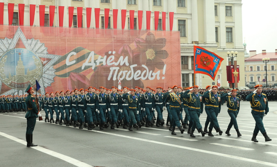 parad pobedy